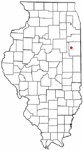 Category:Illinois city locator maps